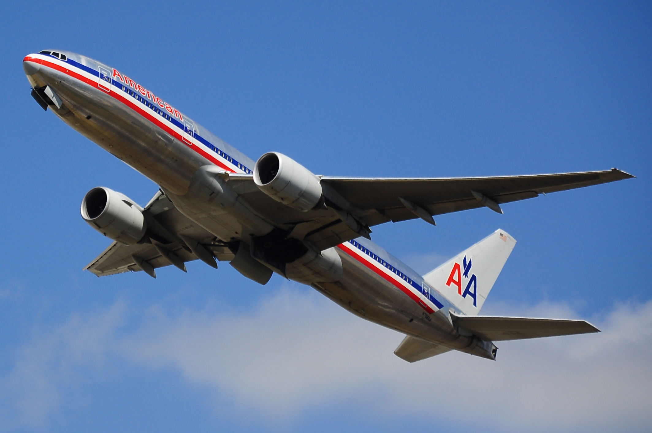 Boeing 777-223ER - American Airlines (N768AA)